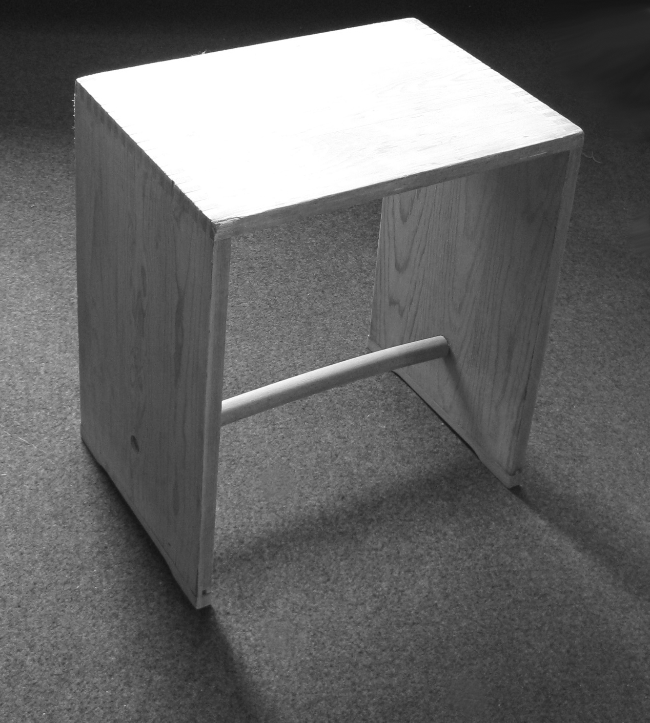 Ulmer Hocker (stool from Ulm) designed by Max Bill